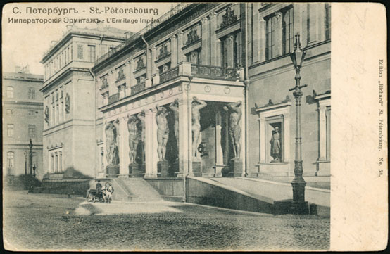 Saint Petersburg (Russia), Hermitage Museum.